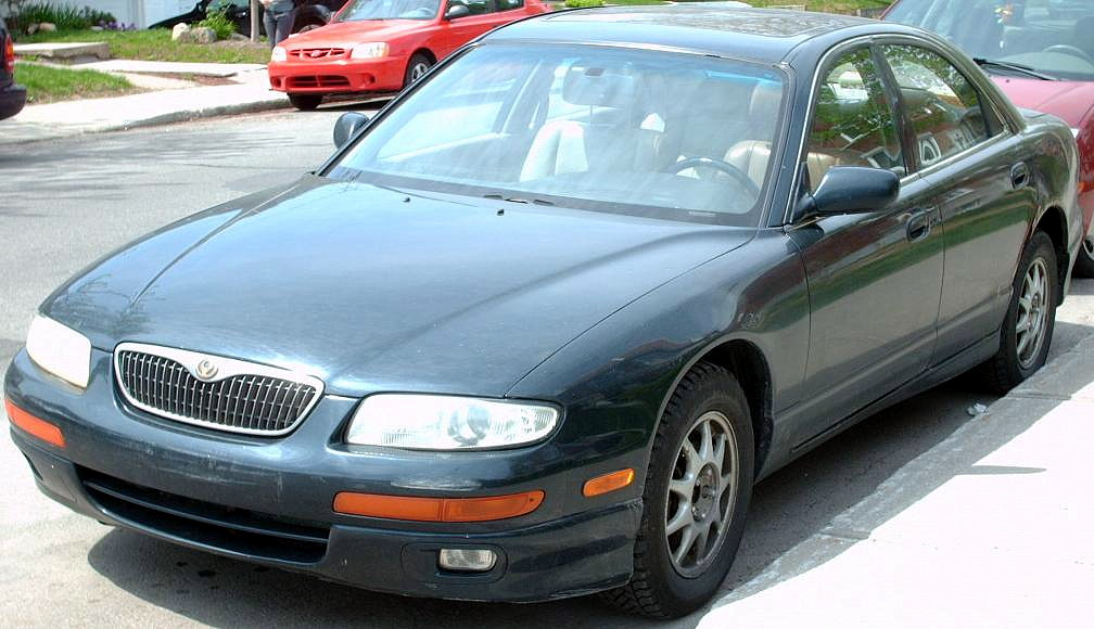 1995-1997 Mazda Millenia photographed in Montreal, Quebec, Canada.